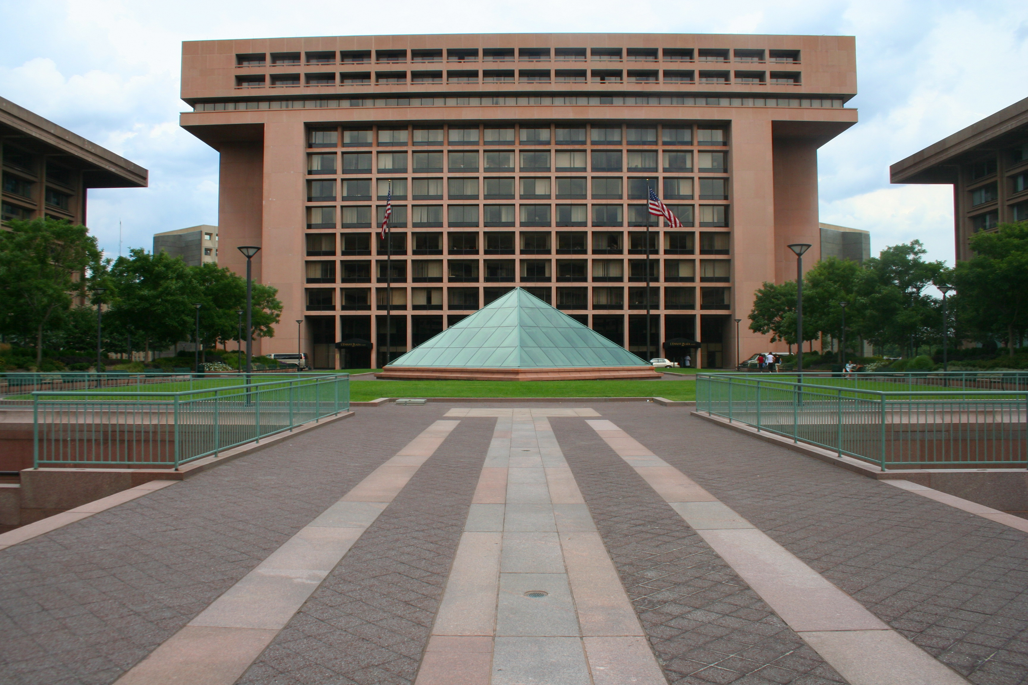 2007 photograph looking east at L'Enfant Plaza in Washington, D.C., in the United States. The L'Enfant Plaza Hotel is in the background. Two pedestrian entrances to the "La Promenade" shopping mall are just visible to the right and left in the image. The hotel was designed by Vlastimil Koubek, and opened in 1973. The Plaza, the North Building (just visible to the left), and the South Building (just visible to the right) were designed by I. M. Pei and his partners in the early 1960s; Pei's partner Araldo Cossutta designed the North and South Buildings. The glass pyramid, constructed in the 1980s, replaced a fountain designed by Pei and was intended to mimic Pei's famous glass pyramid at the Louvre in France. The pyramid was demolished when the plaza was renovated in 2013–2014.